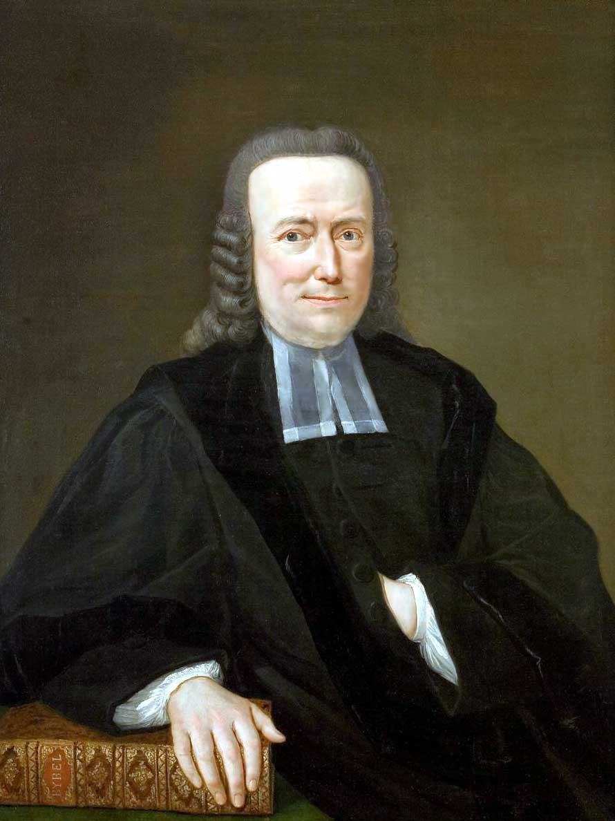 Bernhardinus de Moor (1709-1780) Dutch Reformed theologian